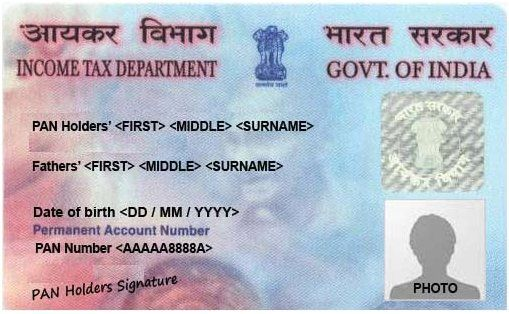 A computer rendered sample of the Permanent Account Number (PAN) Card